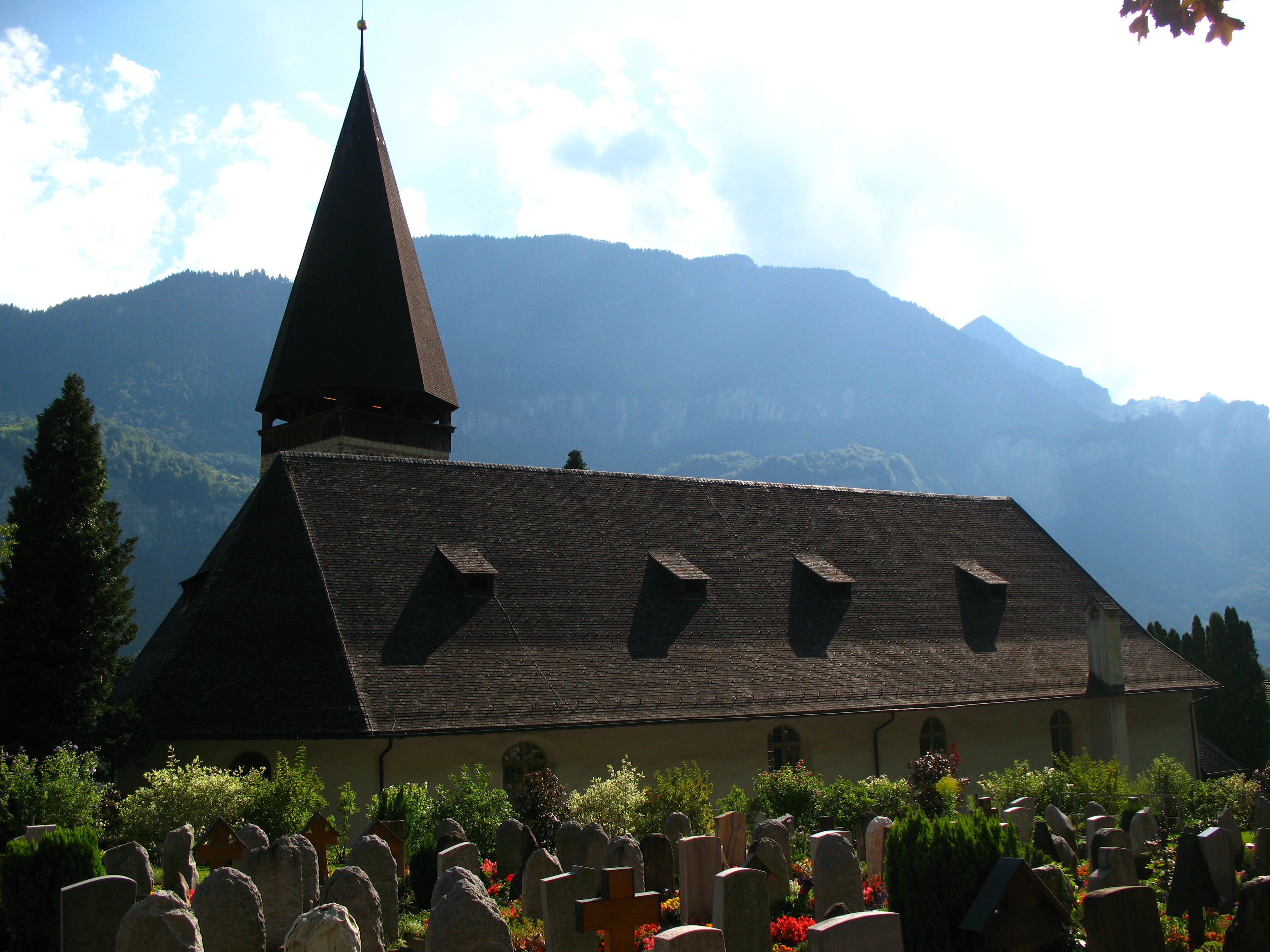 Evangelical Reformation Church, Meiringen, Switzerland